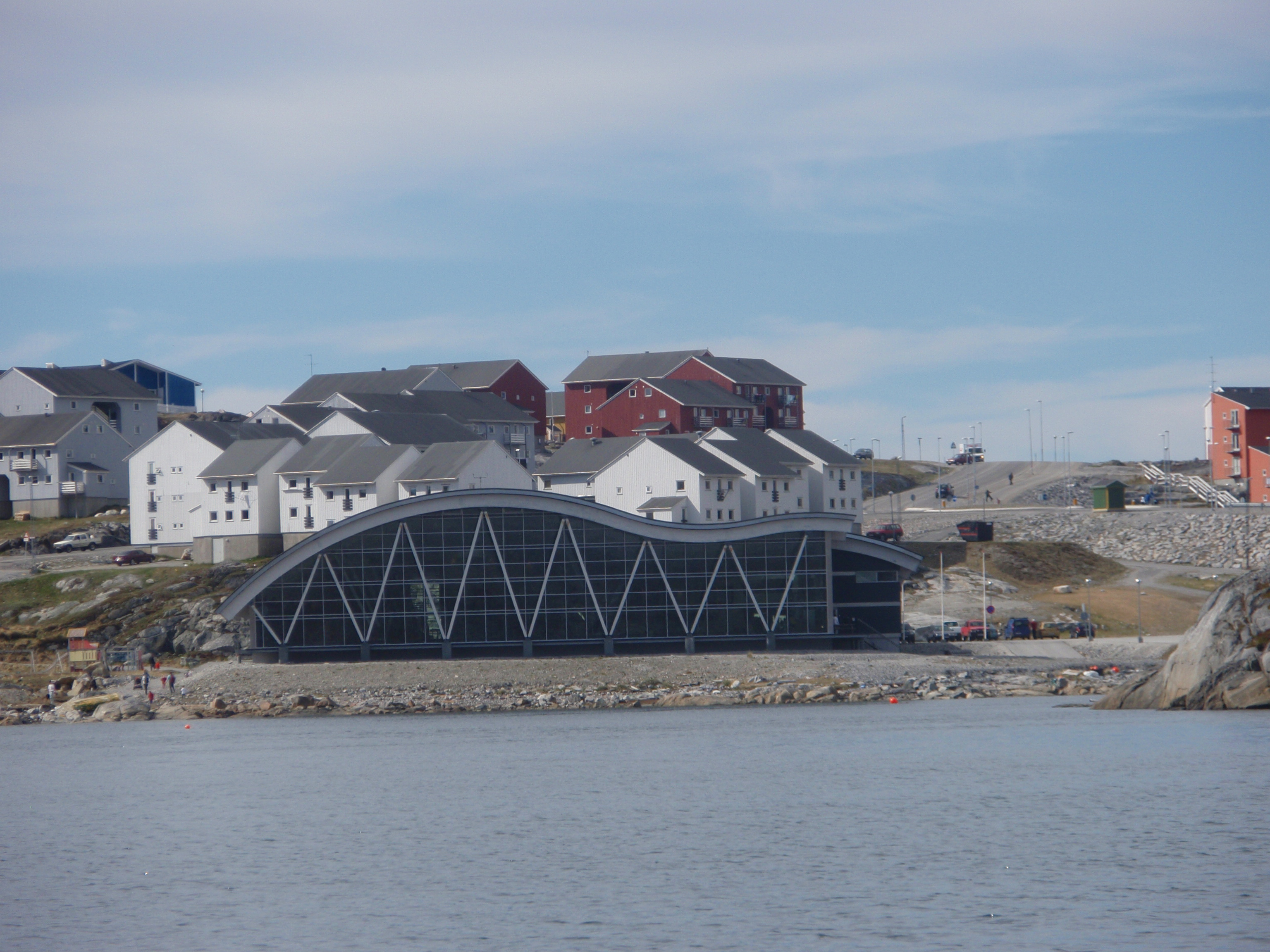 Malik - Nuuk, Greenland